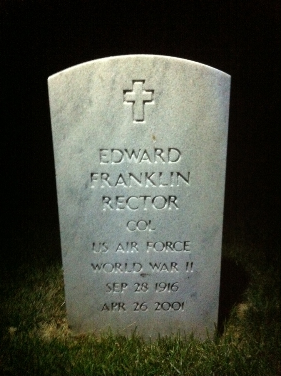 Grave of Edward F. Rector at Arlington National Cemetery